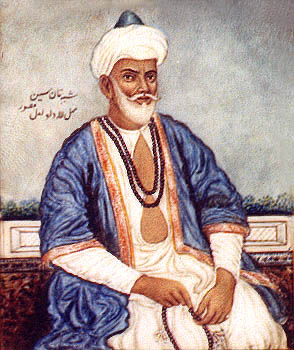 Tansen is considered to be one of the greatest Indian classical singers and musicians of all times. He has created several ragas-- like Miaki-malhar, Miaki-todi etc. Mia Tansen, the celebrated musician of Emperor Akbar's Court. Painted on ivory by Lala Deo Lal. This is displayed in Calcutta Gallery. The factual accuracy of this description or the file name is disputed. Reason: The image does not verify either in the claimed source, or in any published scholarly source. It does not look similar to Tansen pictures published by reliable sources such as MOMA, V&A or scholarly sources. A search for Lala Deo Lal, the claimed creator of this work, yields nothing.